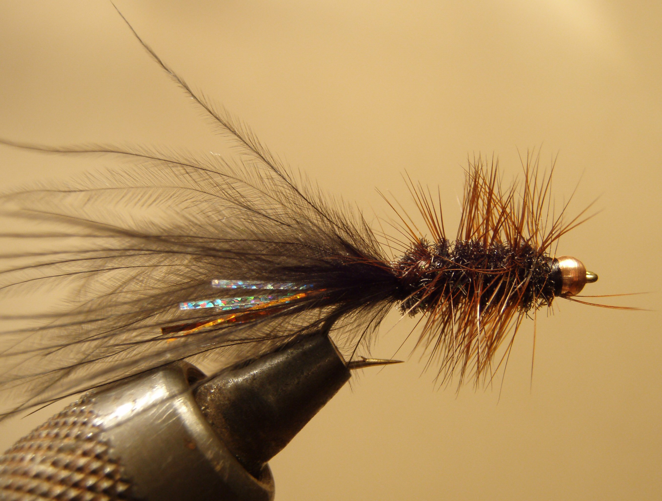 Black and Brown Beadhead Woolly Bugger